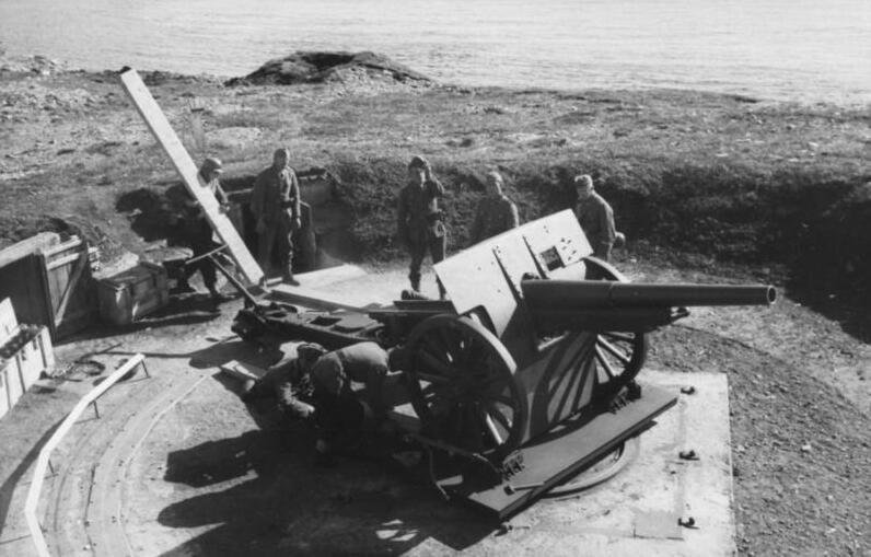 Information added by Wikimedia users.MKB1/514 Rypklubben[1]